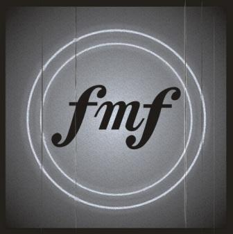 Logotype